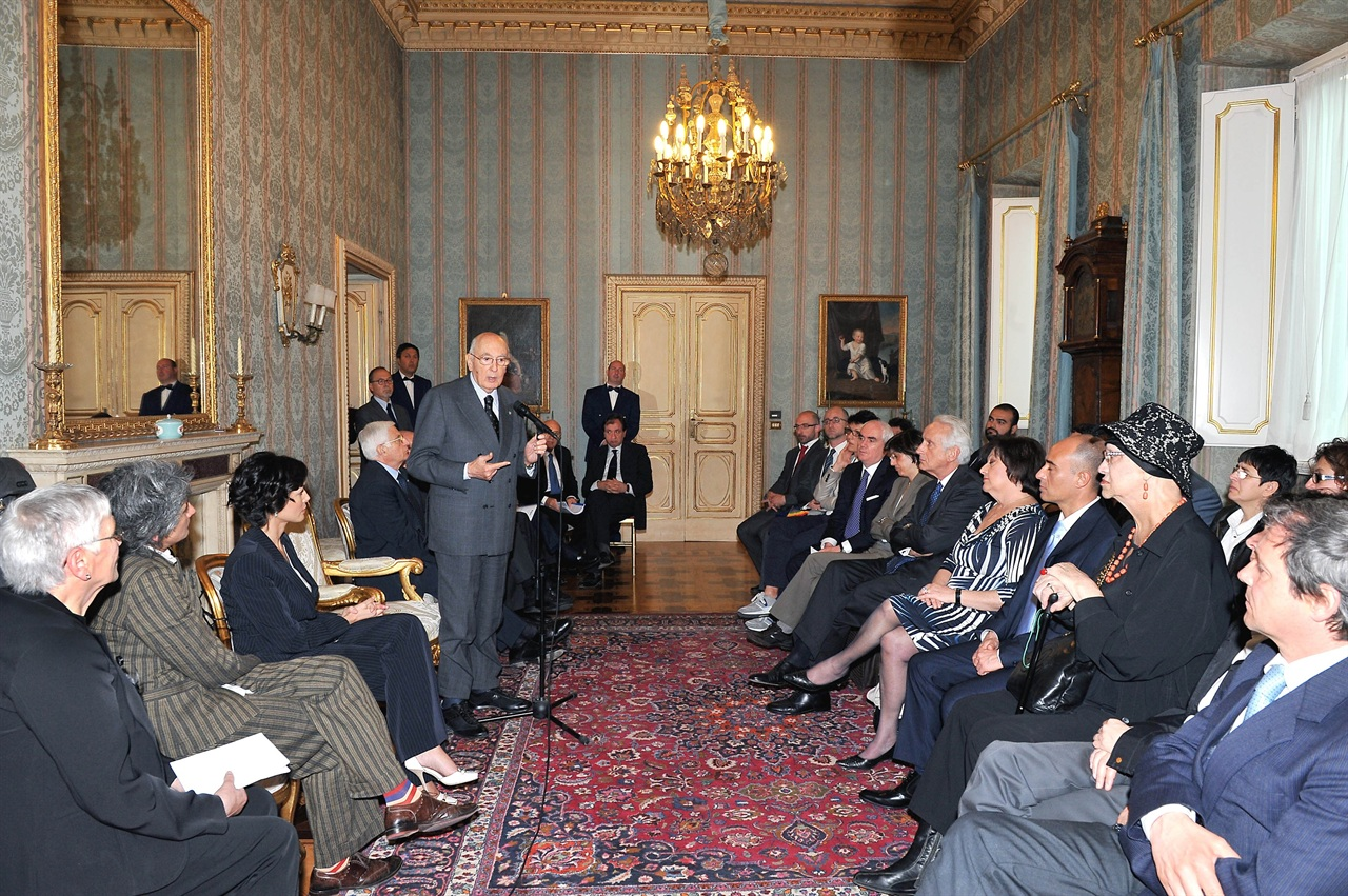 President of italian Republic Giorgio Napolitano meet representatives of LGBT italian associations ata the Quirinale Palace. International Day Against Homophobia and Transphobia 2010.